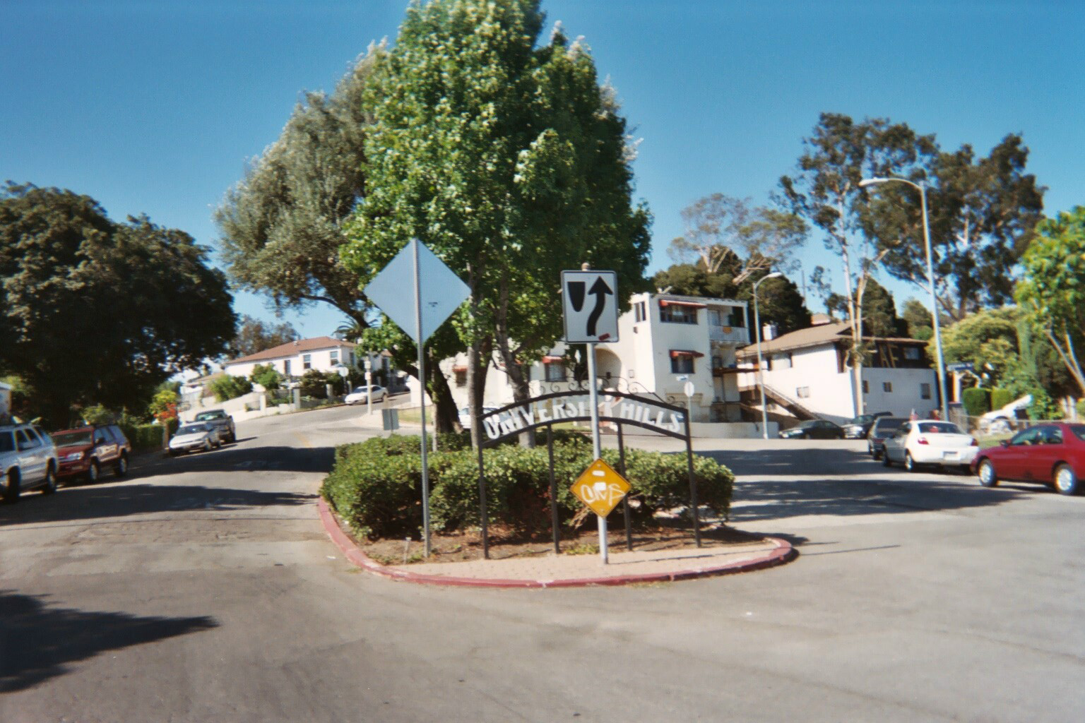 Sign demarcating the NE Los Angeles neighborhood of University Hills. Taken (by me) July 8, 2006.